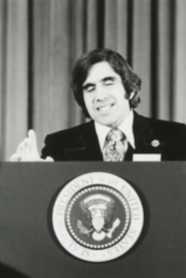 Billy Zeoli speaking from the podium at the National Religious Broadcasters Annual Congressional Breakfast, January 28, 1975. Washington Hilton Hotel.